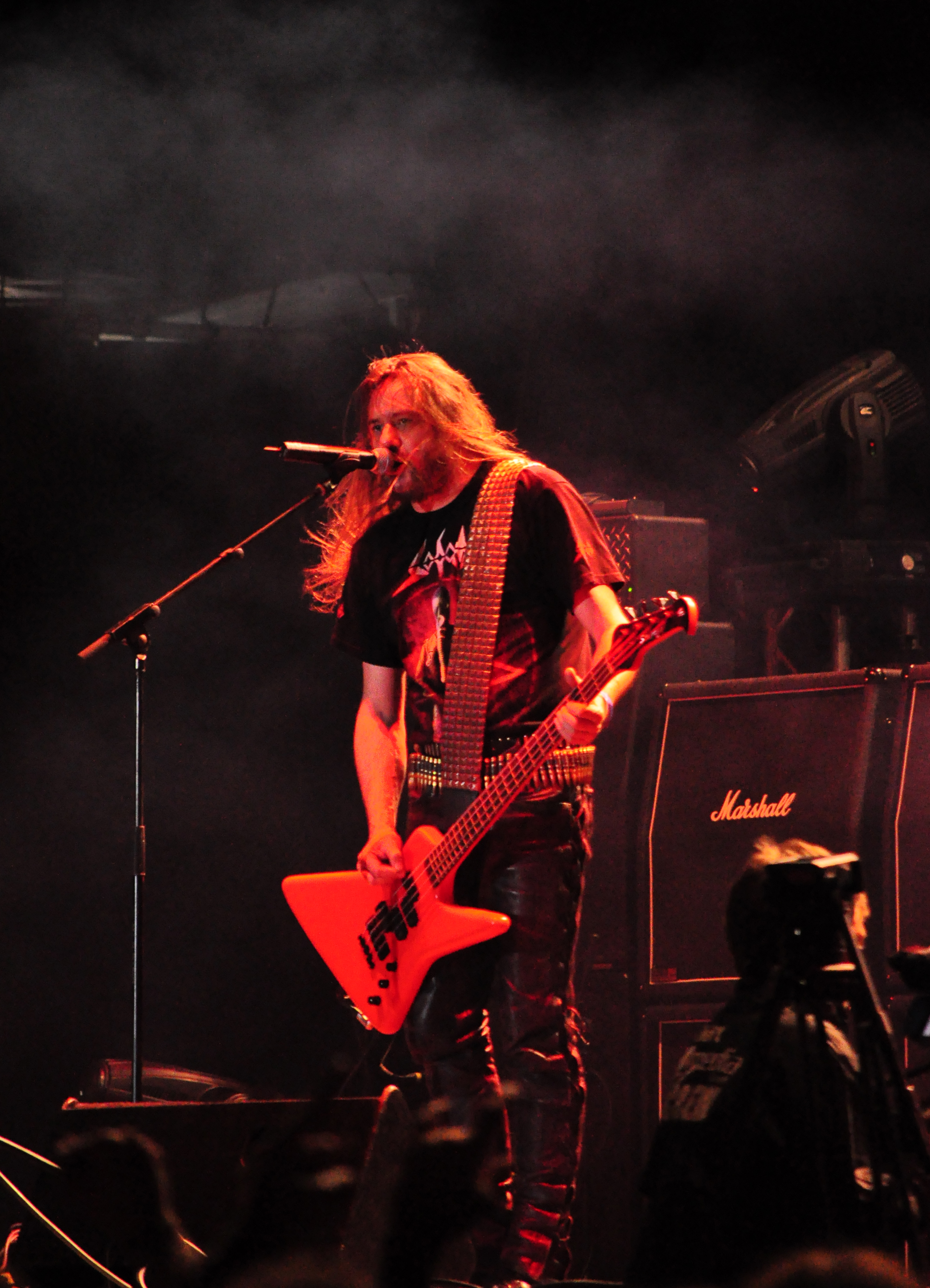 Sodom at Party.San Open Air 2012